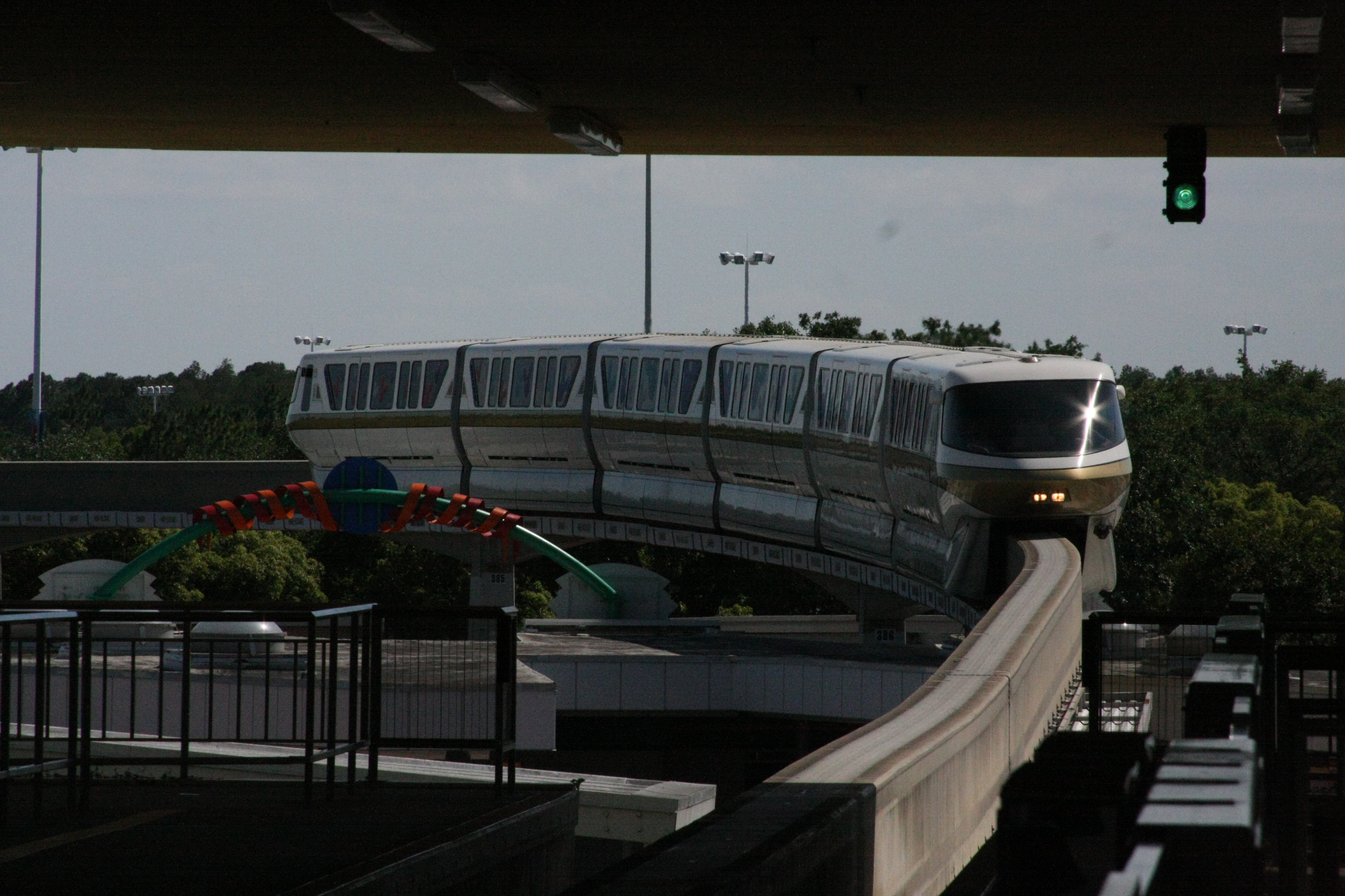 Monorail at Walt Disney World in Florida Monorail Gold approaches the Transportation and Ticketing Center